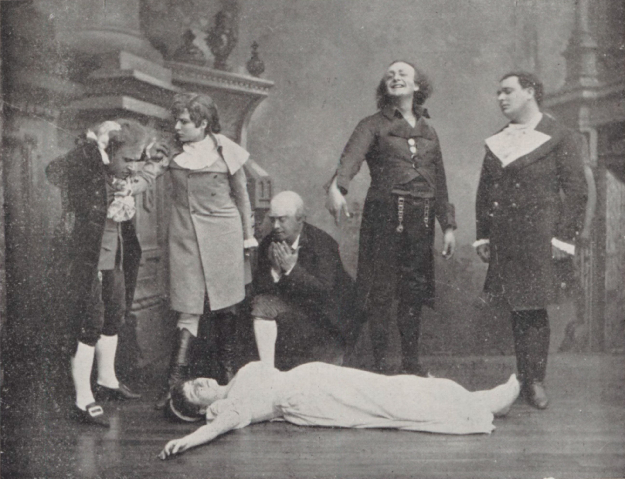 End of Act 3 "La mort d'Antonia" of Offenbach's opera Les contes d'Hoffmann, as performed in the first production at the Opéra-Comique in Paris in 1881. In front: Adèle Isaac (Antonia); in back, left to right: Hippolyte Belhomme (Crespel), Marguerite Ugalde (Nicklausse), Pierre Grivot (Franz), Émile-Alexandre Taskin (Miracle), Jean-Alexandre Talazac (Hoffmann)